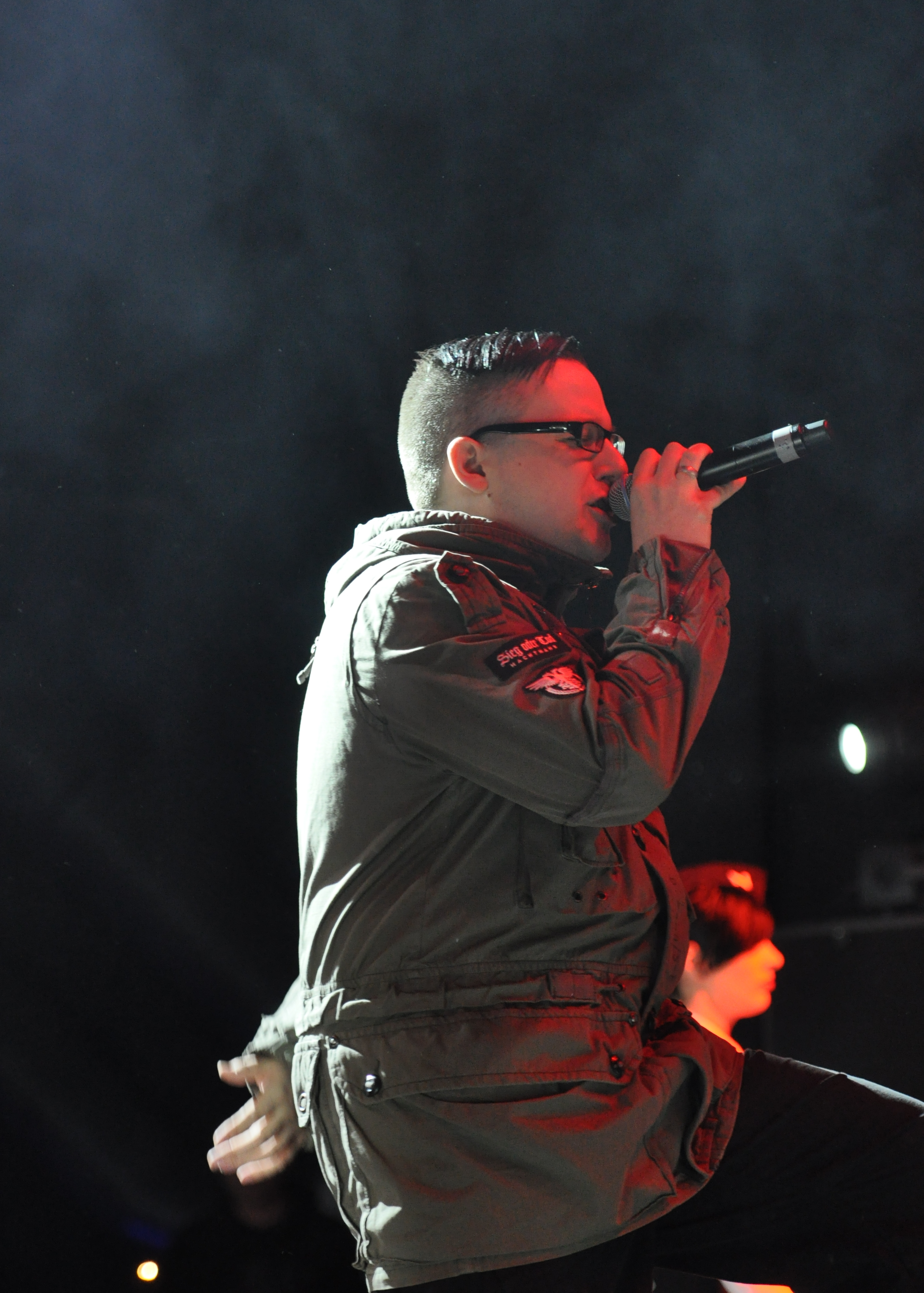 The austrian Band Nachtmahr at e-tropolis 2013, Berlin